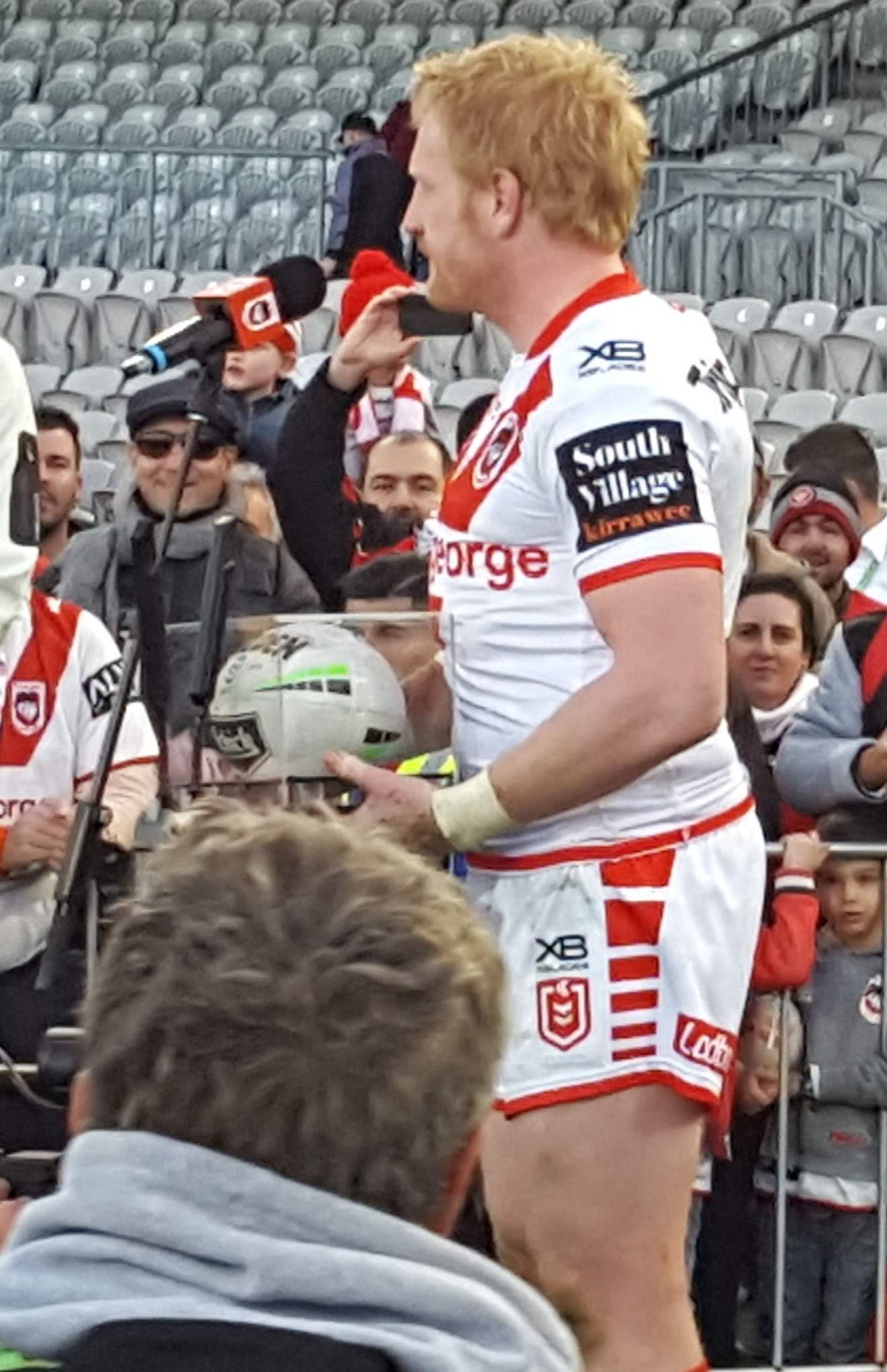 James Graham after his 400th club rugby league game